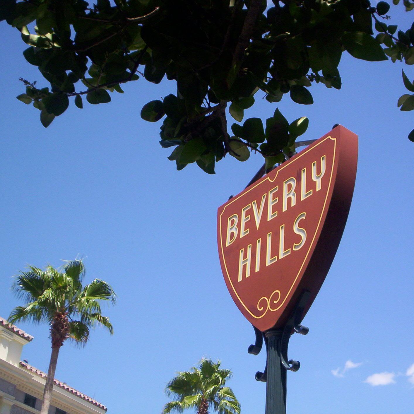 Beverly Hills Sign in Universal Studios Florida